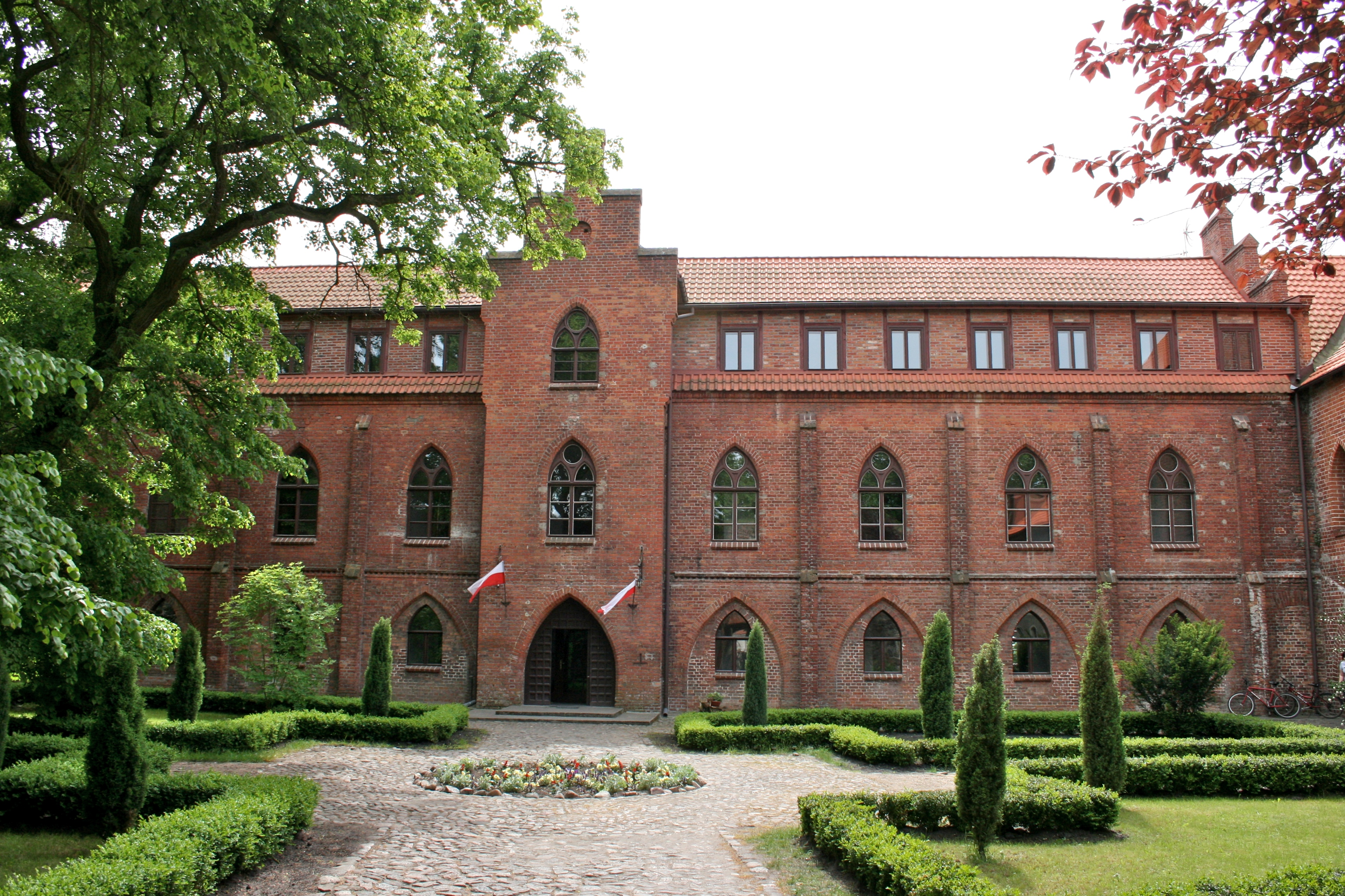 Zamek Bierzgłowski near Toruń, Poland